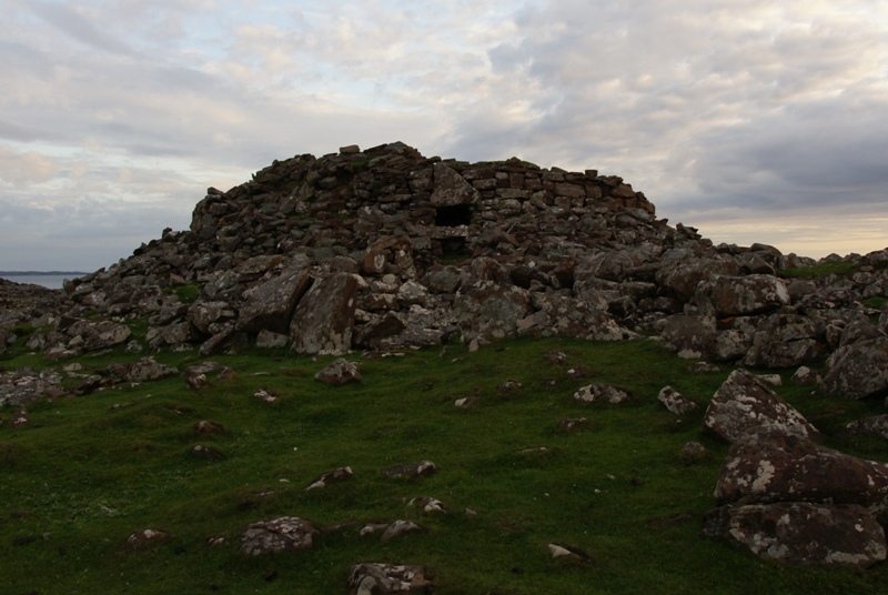 Clachtoll Broch, Sutherland, Scotland